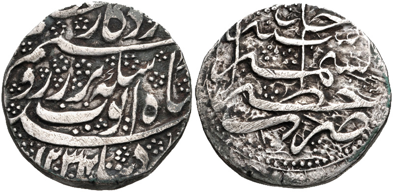 AFGHANISTAN, Durrani Shahs. Ayyub Shah. Circa AH 1233-1241 / AD 1818-1826. AR Rupee (23mm, 10.74 g, 10h). Kashmir mint. Dually dated AH 1234 and RY 1 (AD 1818). SICA 9, 1335 Album 3135; KM 613. VF, toned.